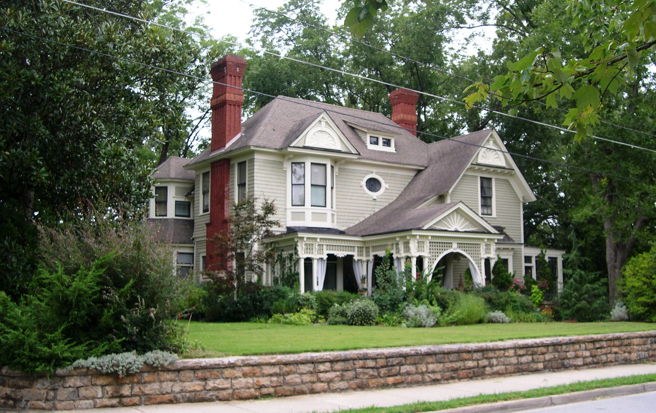 Historic Streetscape, Sycamore Street, Decatur, GA